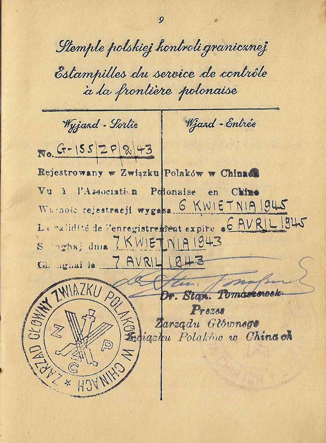 Polish Jew's passport registration inside the ghetto1943.